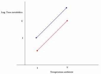 Metabolic Rate-Temperature curve for an ectotherm